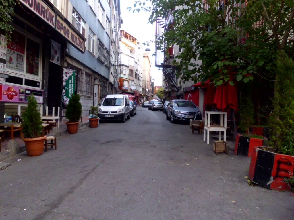 kgumruk2